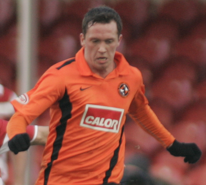 Clydesdale Bank Scottish Premier League - Hamilton Academical vs Dundee United. Hamilton's Dougie Imrie fails to stop the attack of Dundee Utd's Danny Swanson, During the 1-1 draw at New Douglas Park, Hamilton. Picture : Alasdair Middleton/Universal News & Sport (Scotland) Saturday 26th February 2011 Universal News and Sport (Europe) All pictures must be credited to (0ffice) 0844 884 51 22